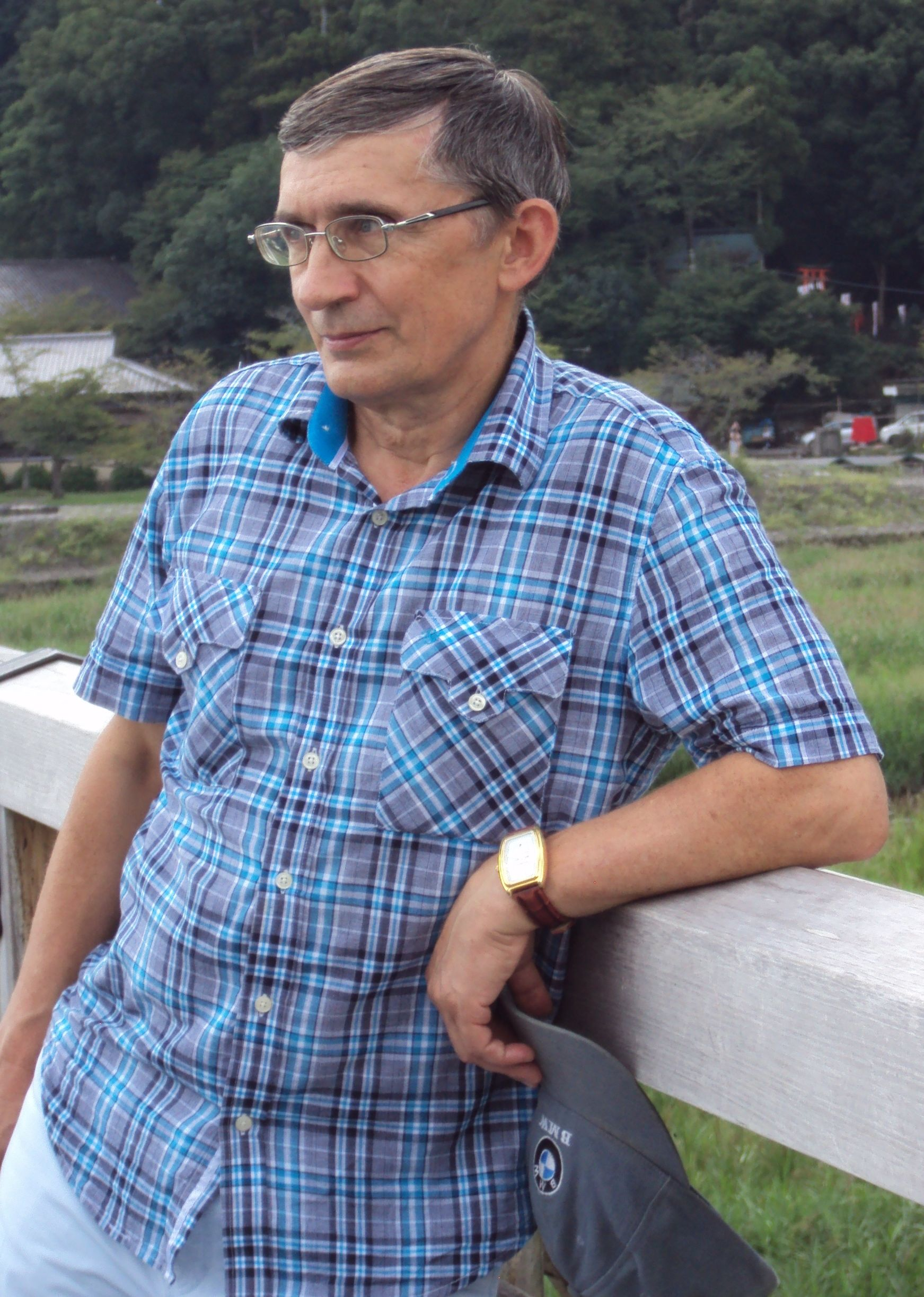 Alexander Fyodorovich Feoktistov (* 28.02.1948), Russian chess composer, in Kyoto (Japan) 2012